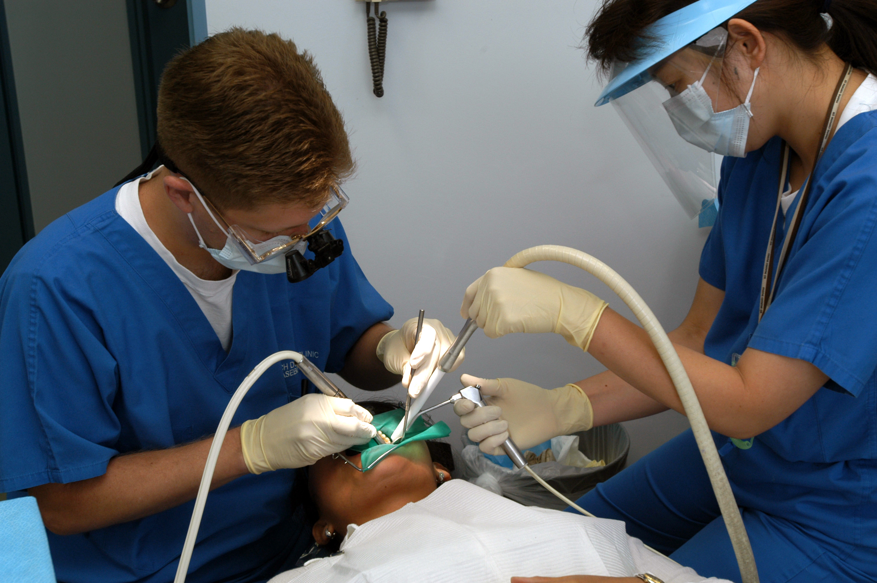 U.S. Fleet Activities Sasebo, Japan (Jun. 20, 2003) -- Lt. William Peterson (left) of Branch Dental Clinic Sasebo, Japan drills a cavity while his dental assistant, Miho Otubo, ensures the area remains clean. U.S. Navy photo by Photographer’s Mate Airman Ian W. Anderson. (RELEASED)